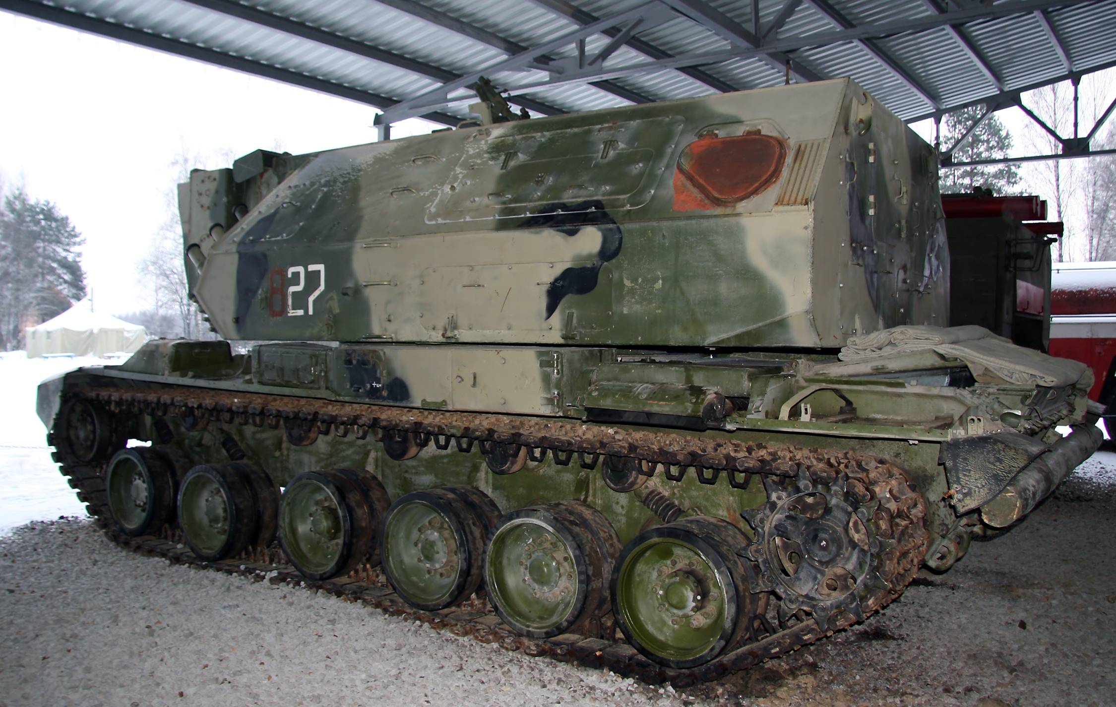 The Soviet self-propelled laser system 1K17 Szhatie on display in a newly opened military technical museum in Noginsk district, Russia.